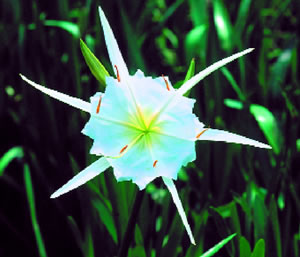 Spider Lily